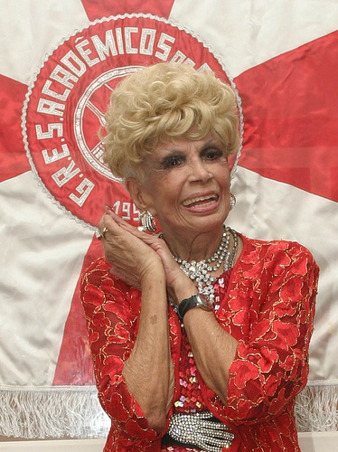 Dercy Gonçalves, brazilian actress and celebrity. Photo by: Andréa Farias